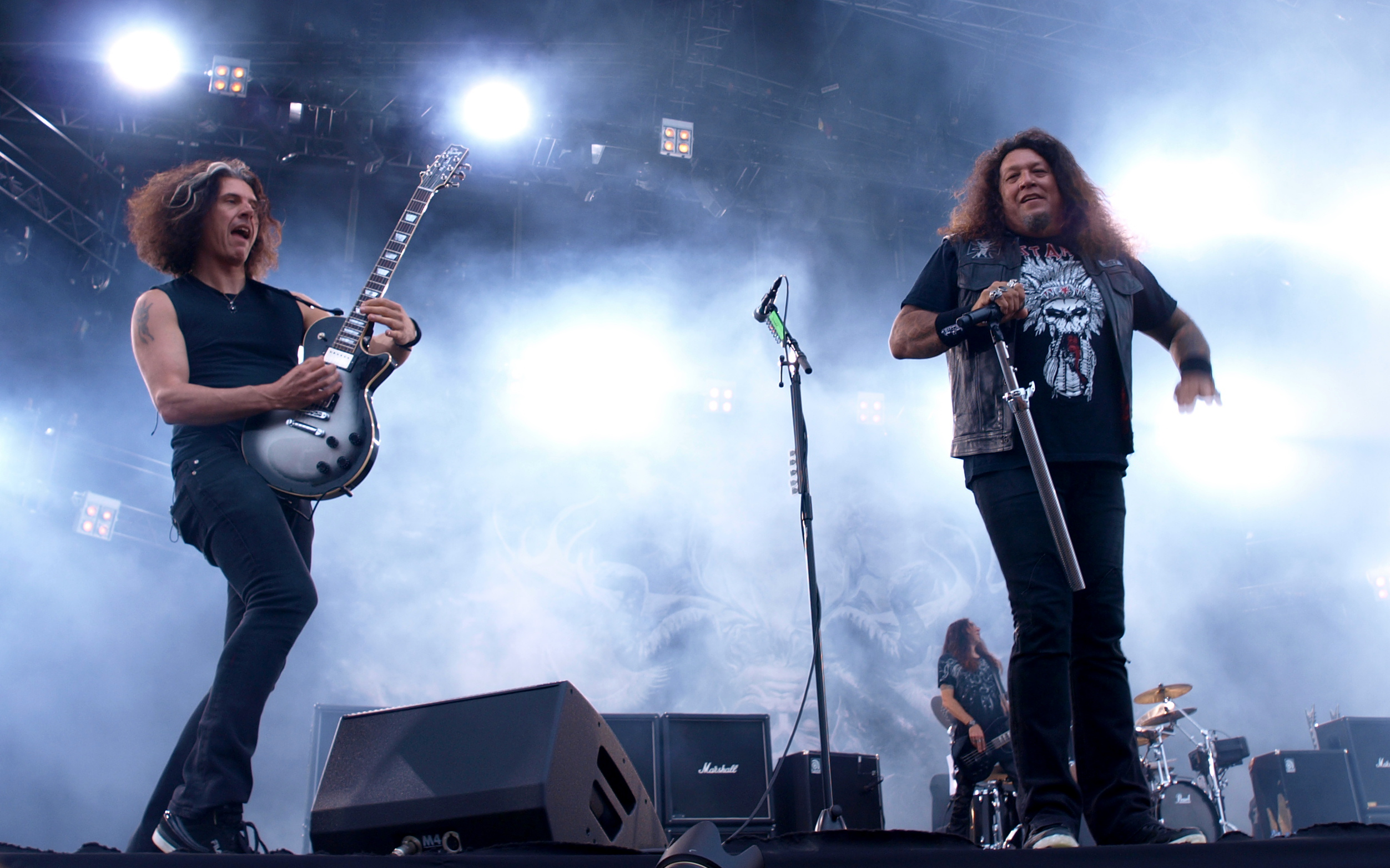 US-American thrash metal band Testament live at Tuska Open Air 2013